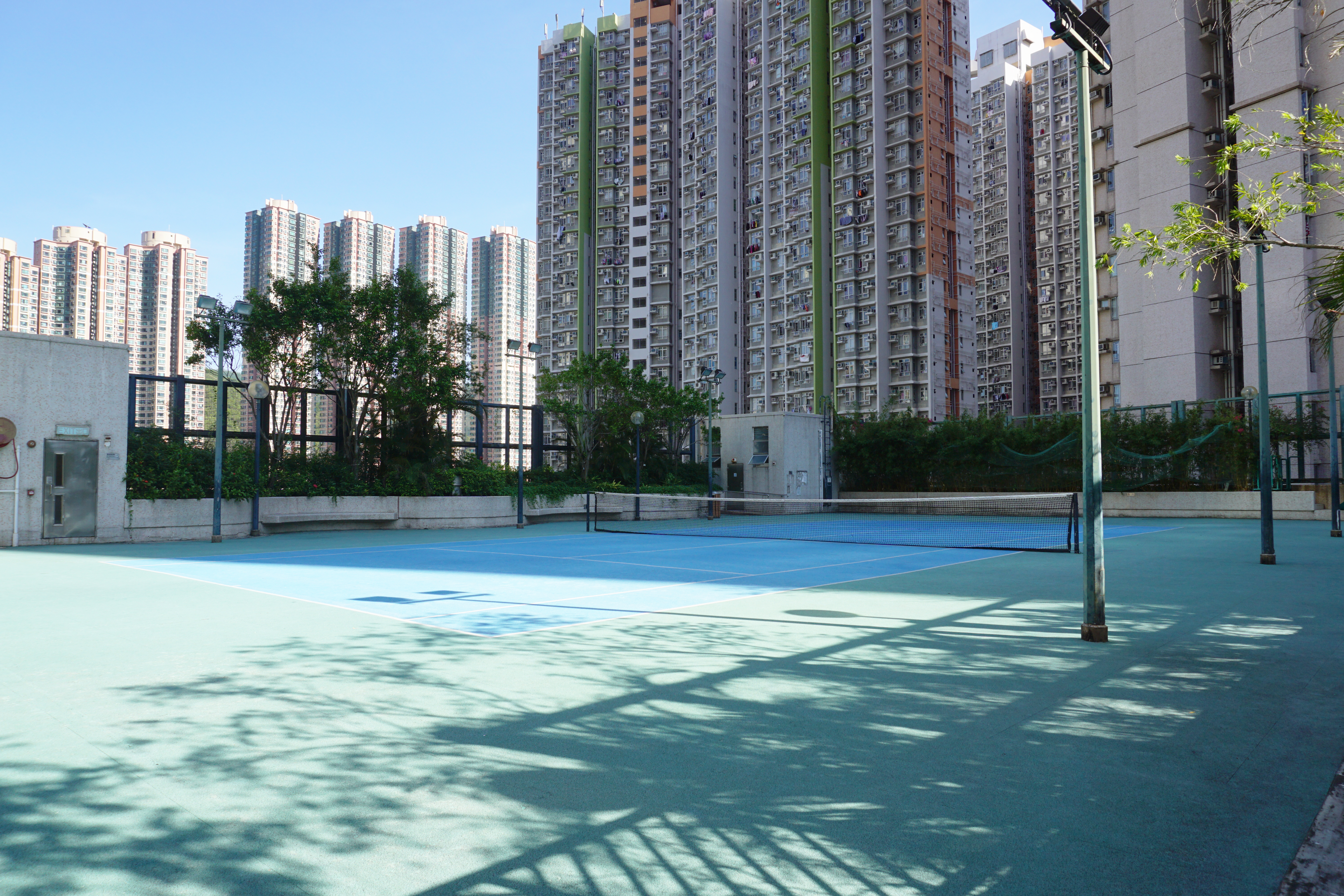 Bauhinia Garden in Tseung Kwan O, Hong Kong.